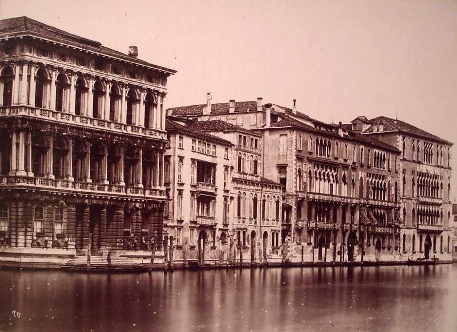 Carlo Naya (1822-1881) - Venice. Grand Canal". Catalogue # 70.